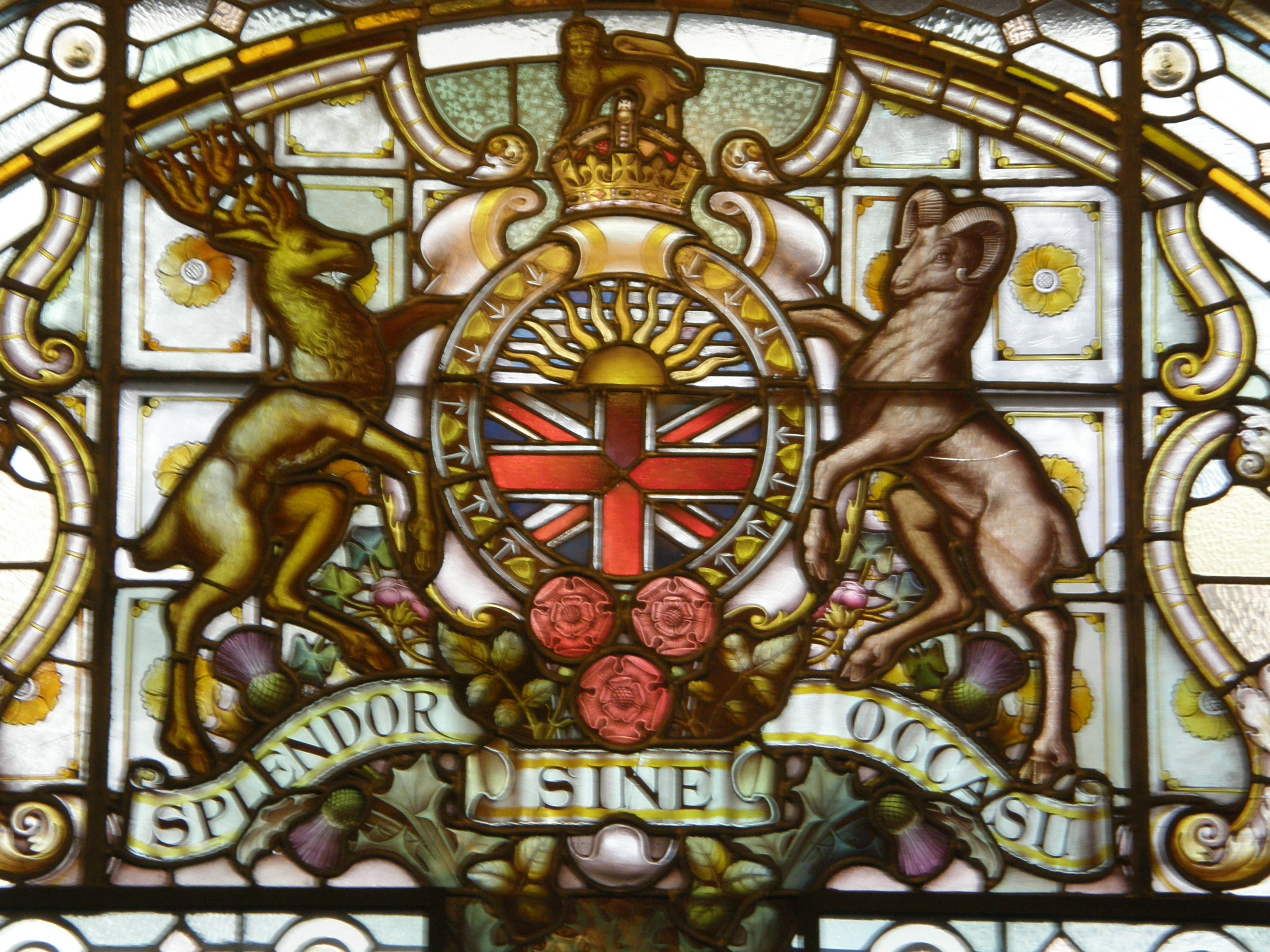 An older version of the arms of British Columbia, on display in the parliament building in Victoria, B.C. Note the reversed positions of the flag and the setting sun.